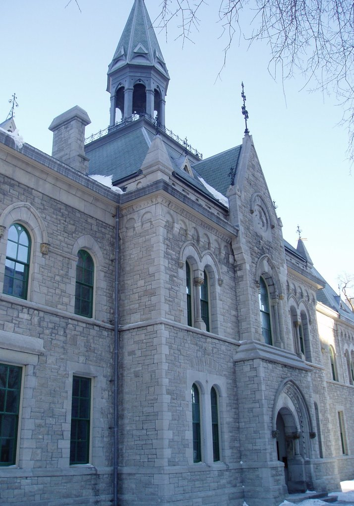 ttawa City Hall, Heritage Wing, Ottawa, Canada. Taken by SimonP in February 2005